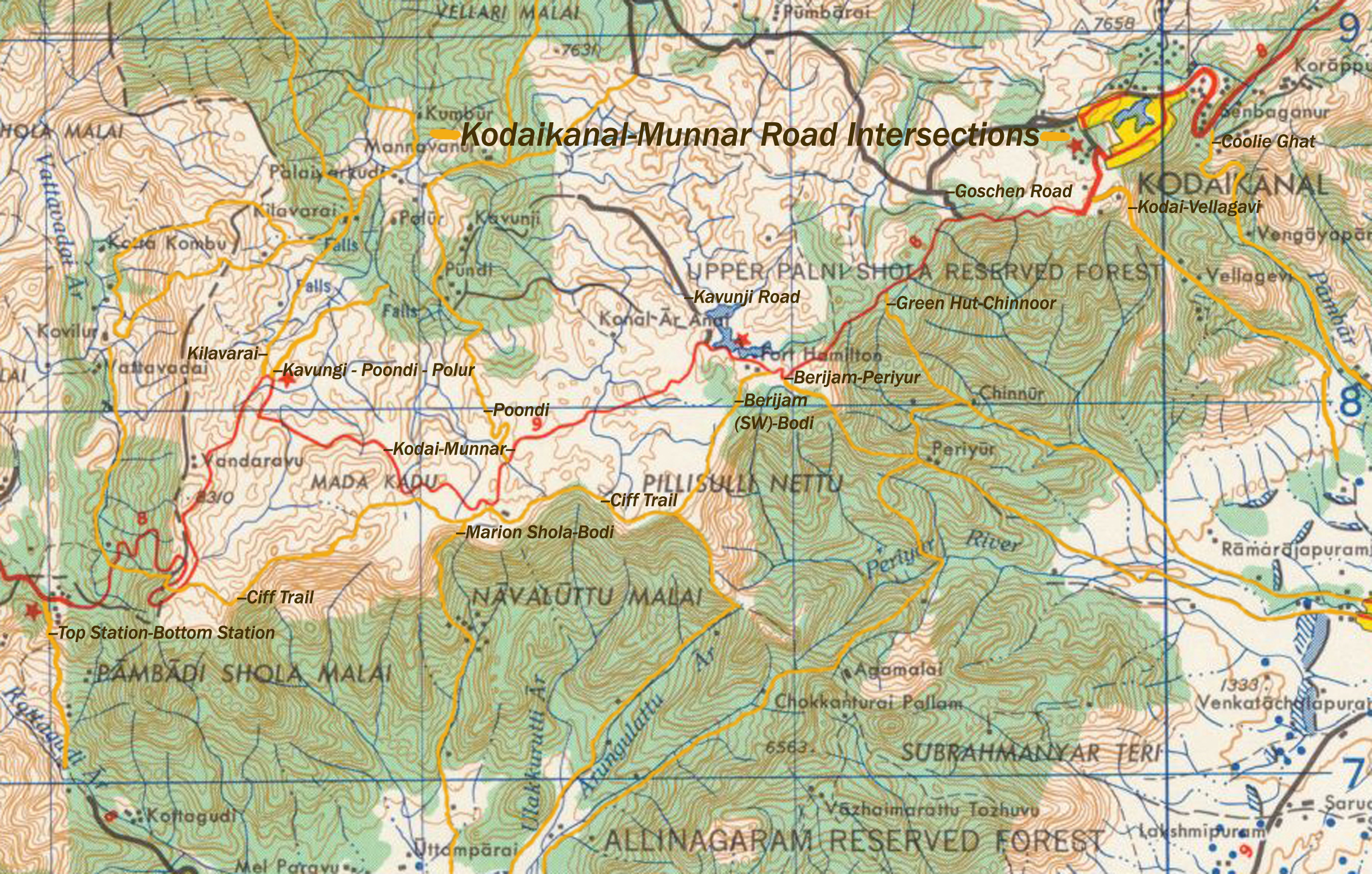 1955 topographic map Kodaikanal Munnar road showing intersecting roads and other trails, 1:250,000